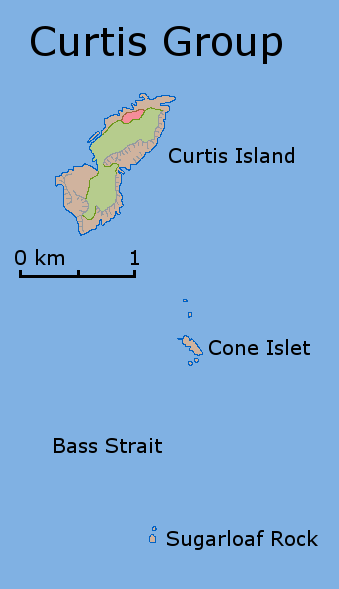 Map of Curtis Island Bass Strait, and nearby rocks